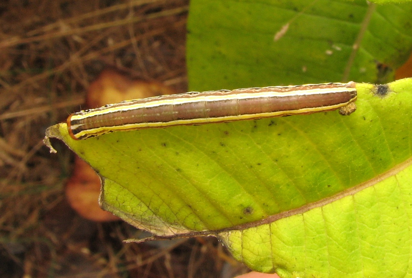 Trichordestra legitima (Striped Garden Caterpillar Moth) on common milkweed. Size: 22-25 mm. Schuylkill Nature Center, Philadelphia County, Pennsylvania, USA. More details: [1]